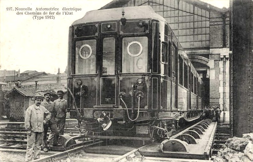 Railcar Bo'2' 1001 to 1018 (future Z 23011 to 28) of French Etat administration, 1912, service in may 1913.